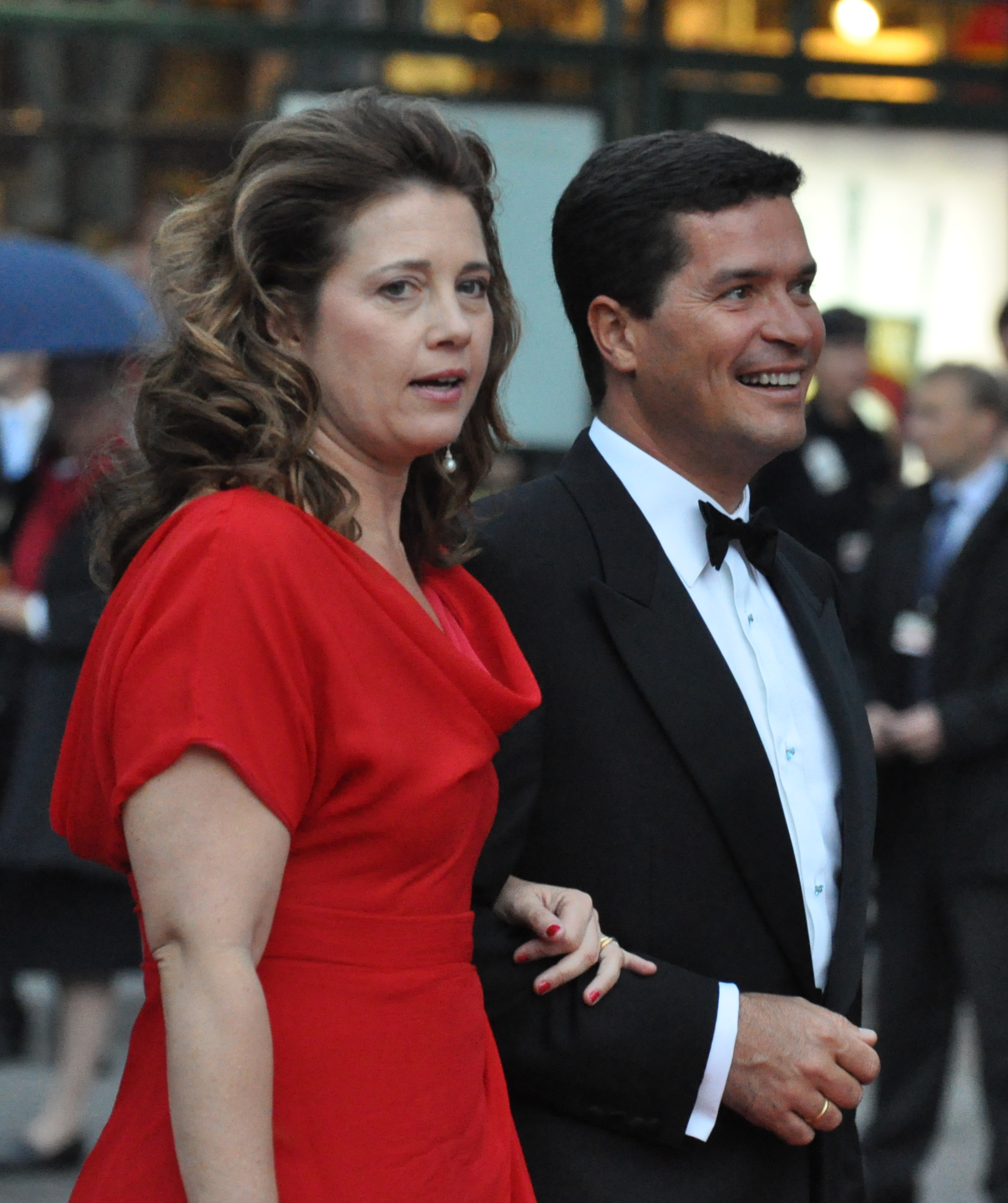 Wedding of Victoria, Crown Princess of Sweden, and Daniel Westling; Arrival of members for the Gouvernment and Swedish and foreign guests of hounour to the Riksdag's Gala Performance at Konserthuset